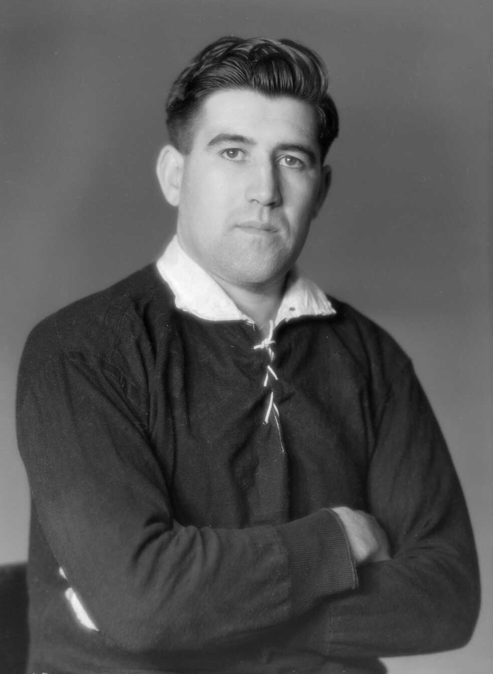 Photograph of Johnny Smith in All Black Uniform, taken by Crown Studio Ltd of Wellington.